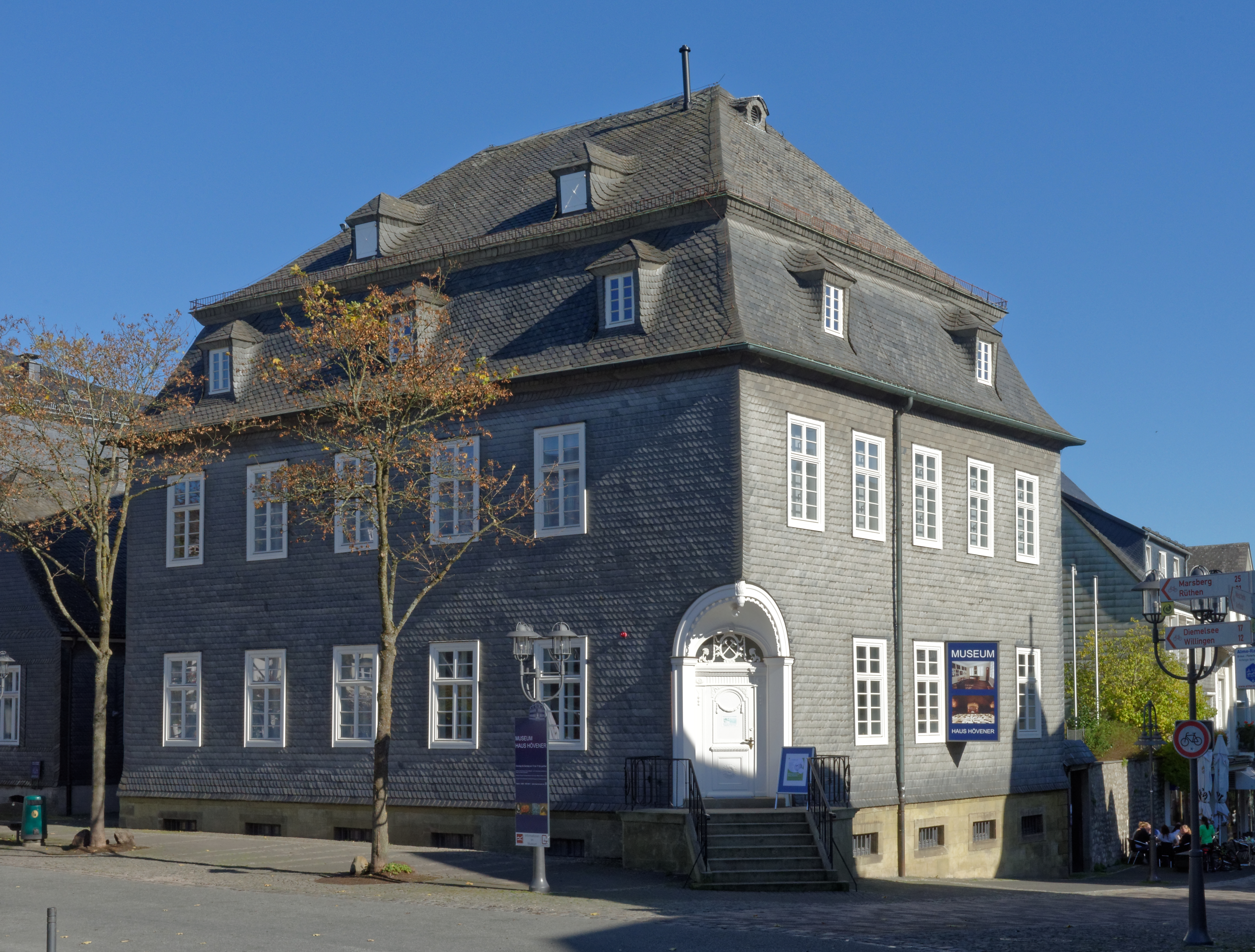 Museum Haus Hövener, Am Markt 14, Brilon, Nordrhein-Westfalen, Deutschland Museum Haus Hövener Native nameMuseum Haus HövenerLocationBrilonCoordinates51° 23′ 44″ N, 8° 34′ 06″ E Established1983Website control VIAF: 201846718 This image shows a heritage building in Germany, located in the North Rhine-Westphalian city Brilon.